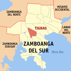 Map of Zamboanga del Sur showing the location of Tigbao